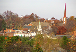 A "skyline" view of downtown Hudson from the Veteran's Way bridge. Visible along the horizon are cupolas above Seymour Hall and the John D. Ong library at Western Reserve Academy. The tallest steeple is First Congregational Church. The copper steeple is Christ Church Episcopal. Just left of this church, the very top of the clocktower is seen. Reformatted file of an image taken November 10, 2006 by DangApricot (Erik Breedon) Original size: 2048 x 1536 Camera: Canon PowerShot S1 IS